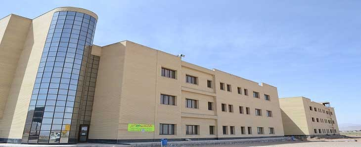 دانشگاه بزرگمهر قاین